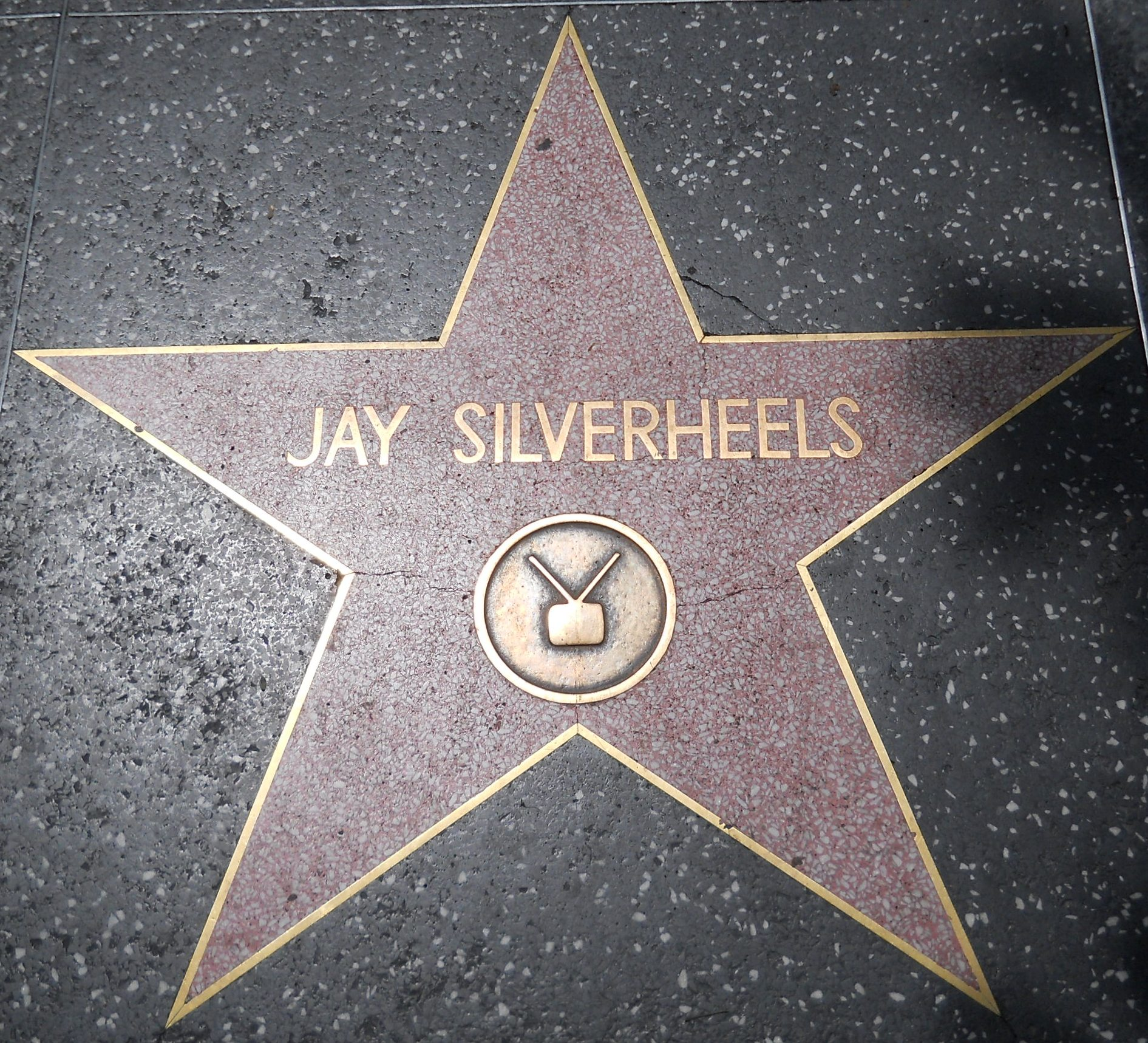 Actor Jay Silverheels' star on the Hollywood Walk of Fame